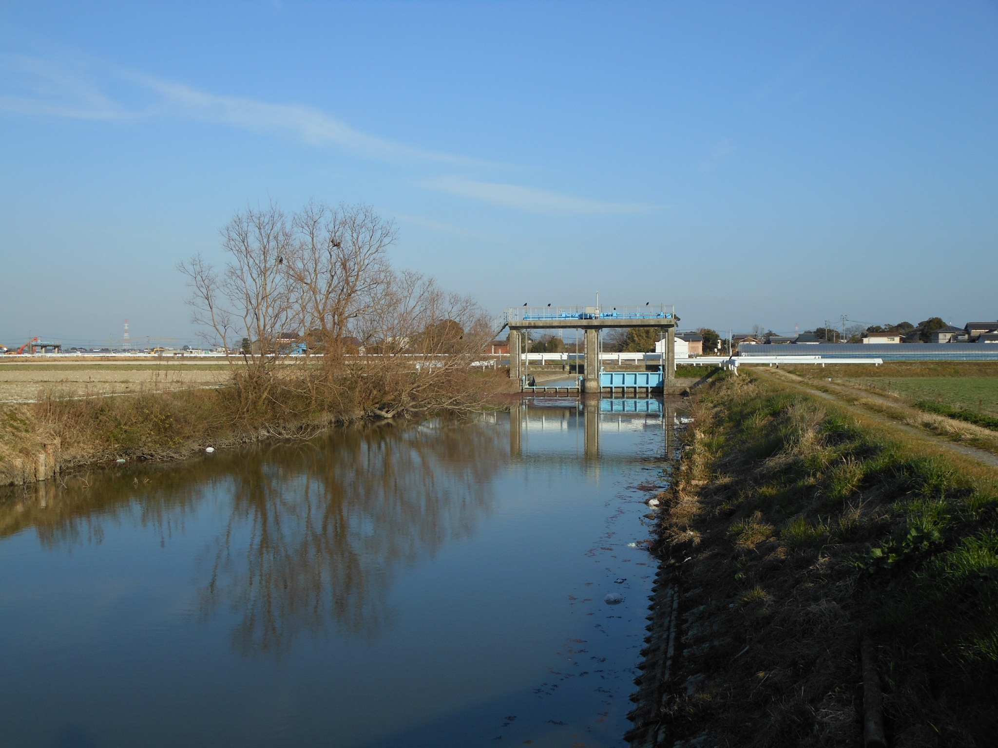 Straight creeks that modified in modern times, and a floodgate, in Kose, Saga City.